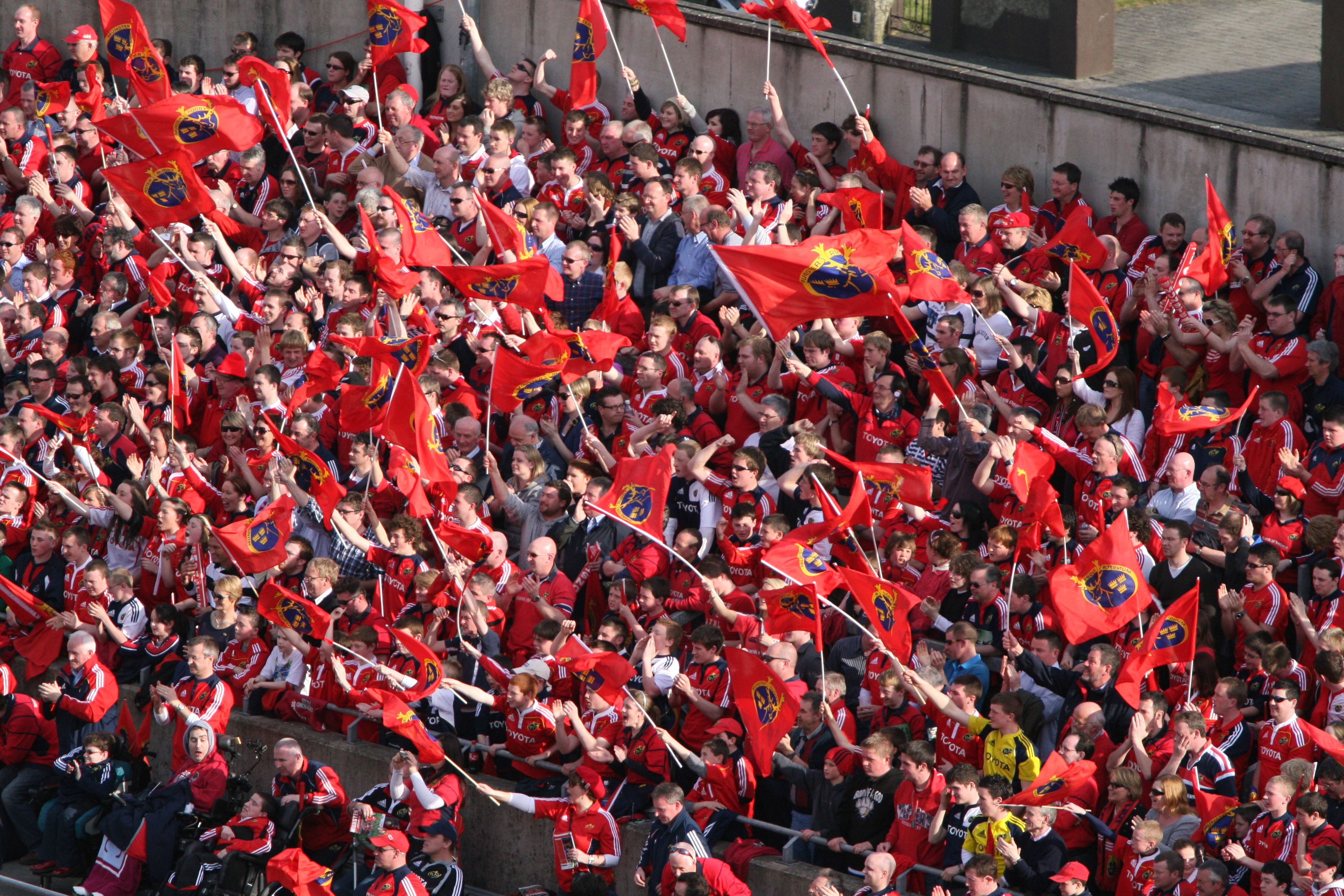 Munster vs Northampton Saints in the Heineken Cup Quarter Final at Thomond Park, Limerick - 10th April 2010 Munster vs Northampton Saints in the Heineken Cup Quarter Final at Thomond Park, Limerick - 10th April 2010